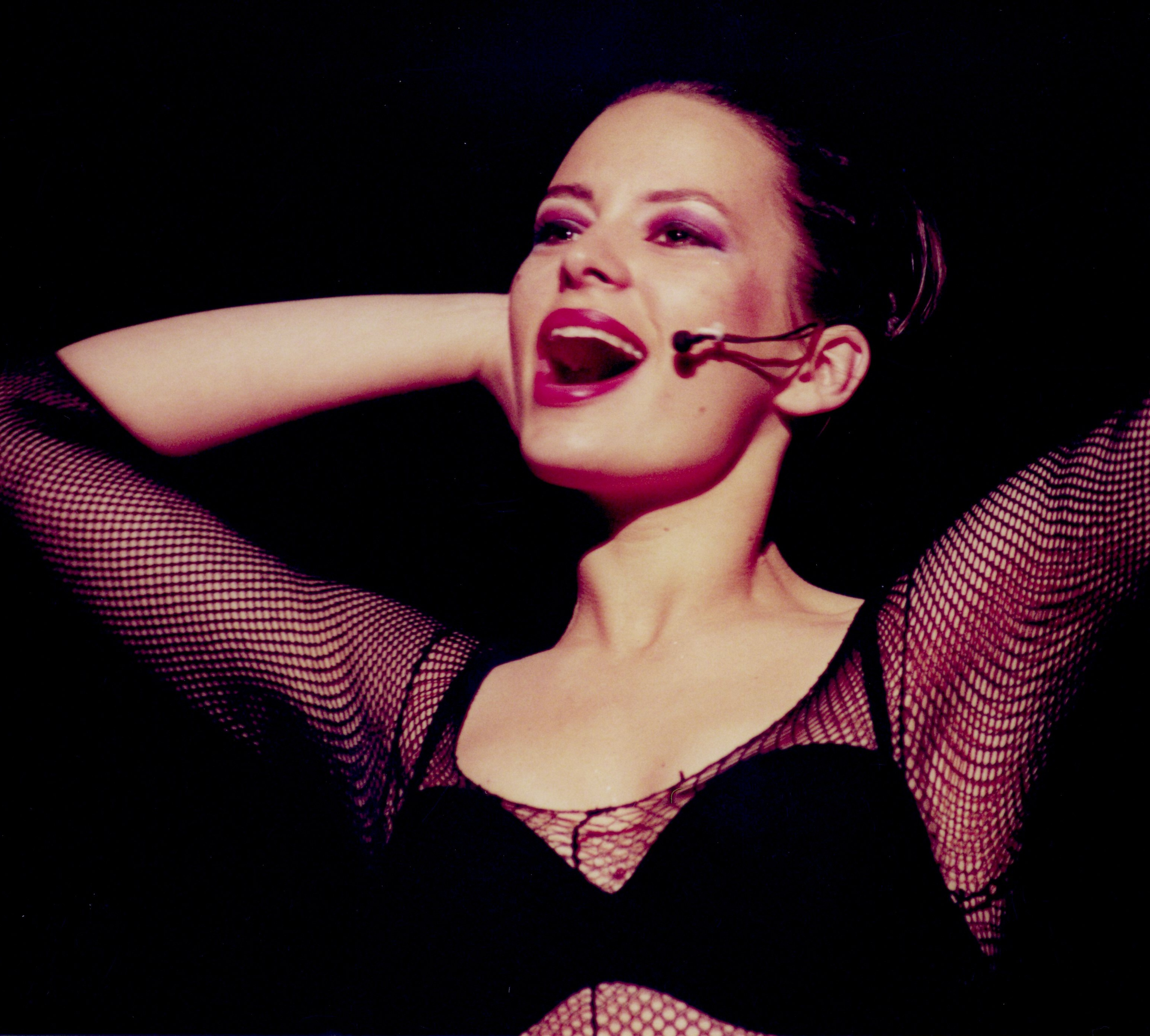 Jitka Čvančarová